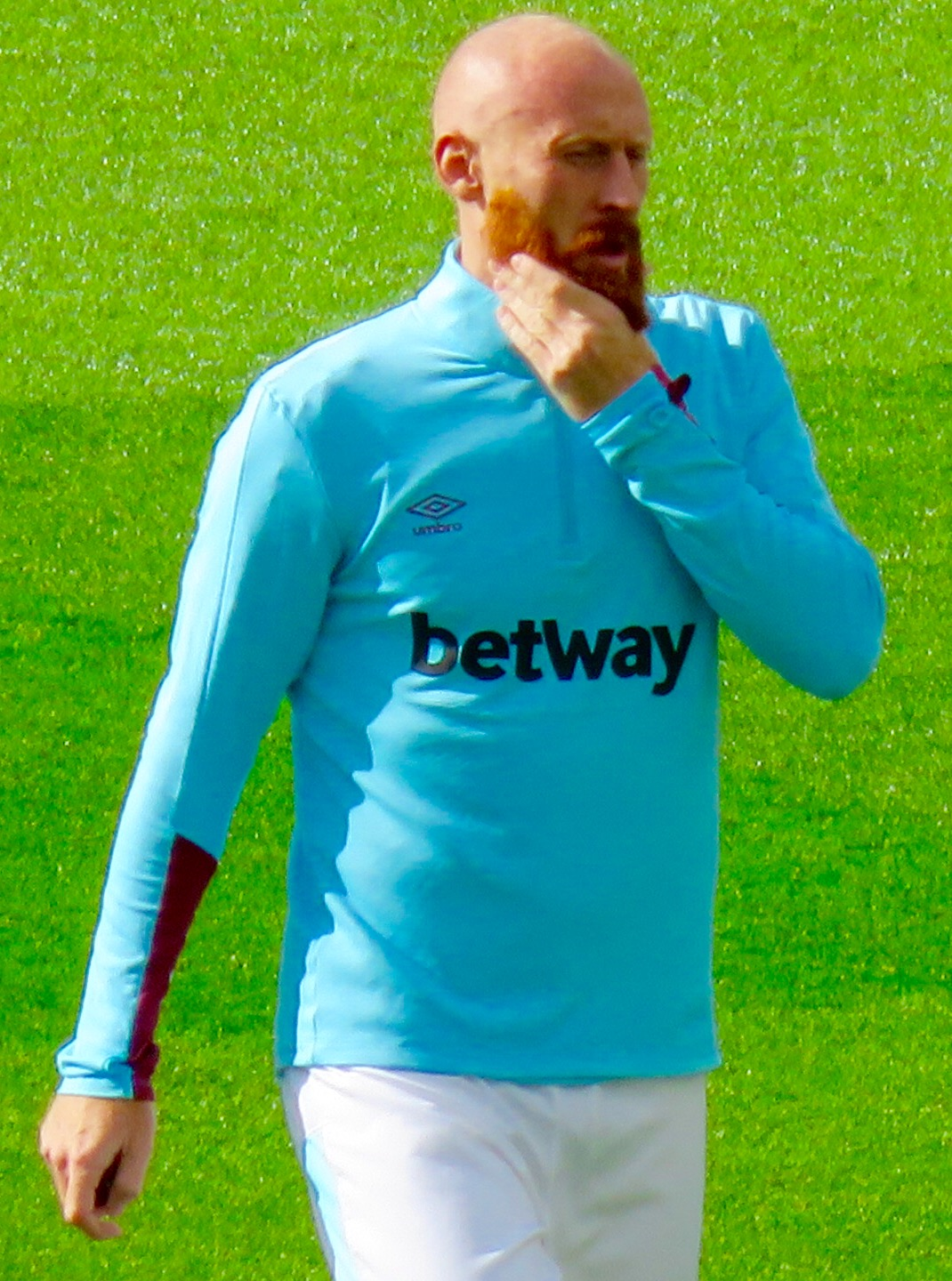 West Ham United player, James Collins warming up before their Premier League game at the London Stadium.